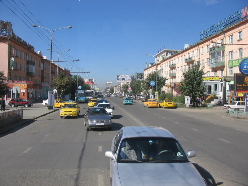 Big street in Ulan Bator, Mongolia.